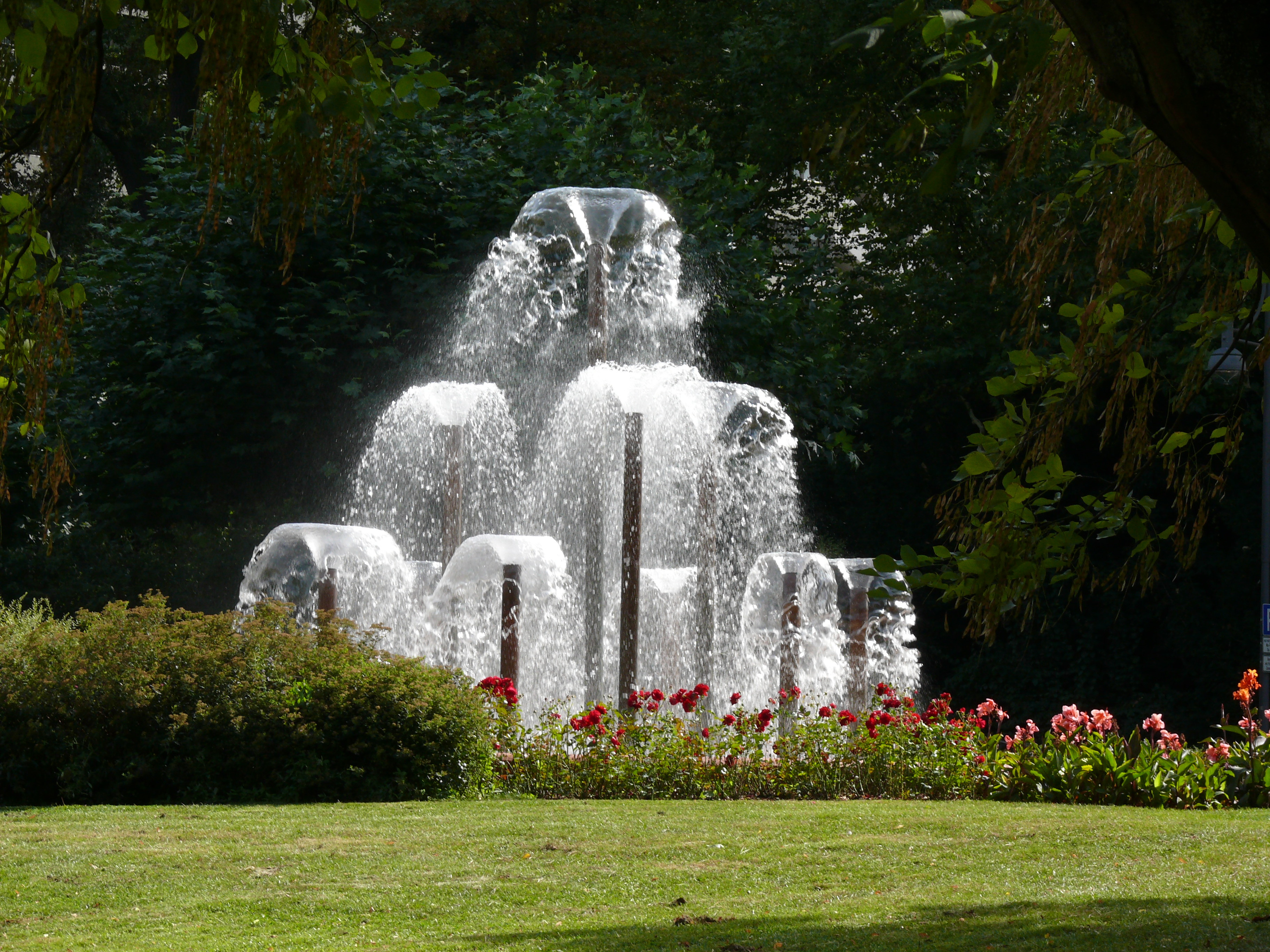 Fountain at "Kurpark" in Bad Homburg, Hesse, Germany